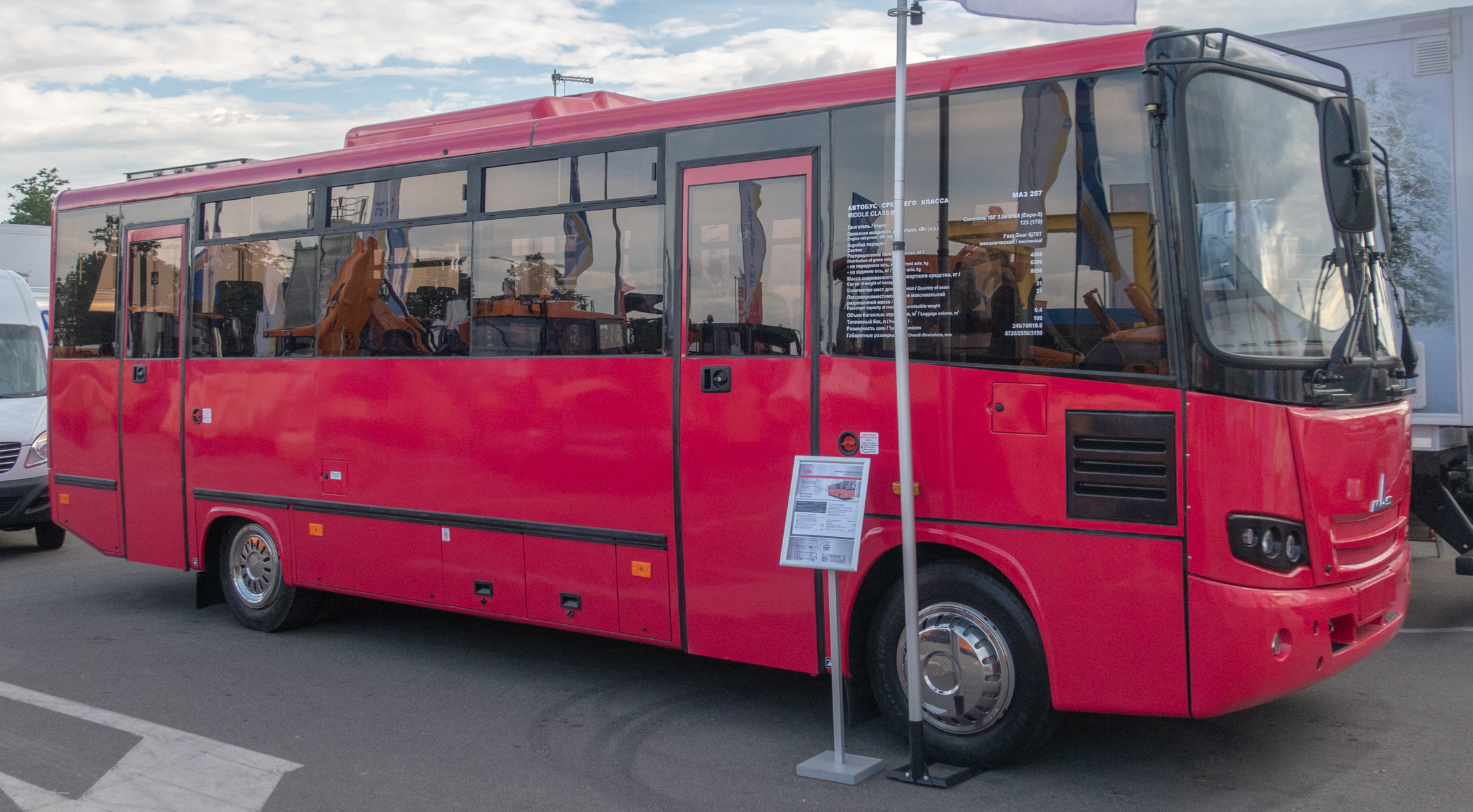 MAZ-257 bus. Photo taken at Belagro-2019 exhibition (Minsk district, Belarus)